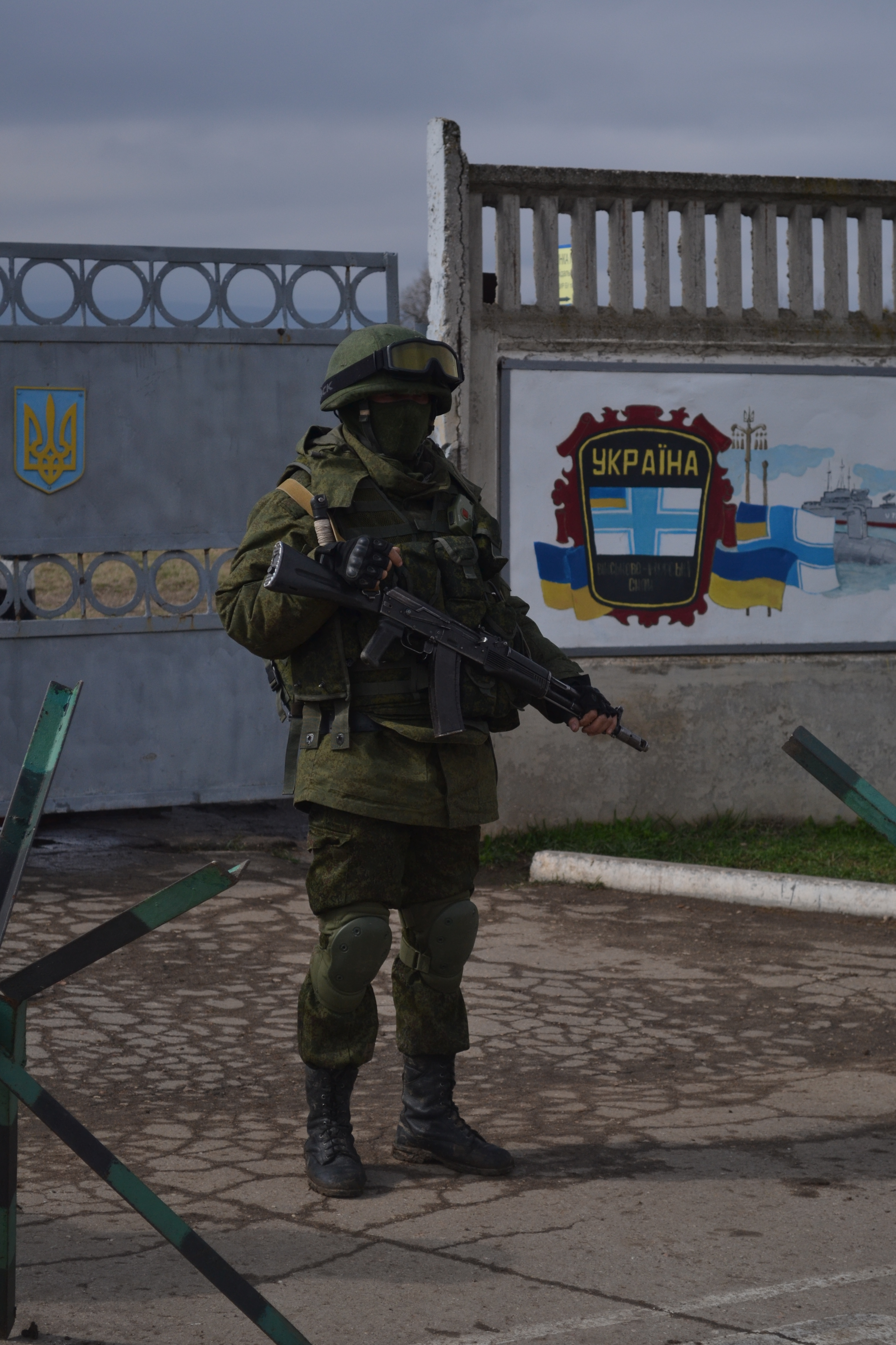 Military base at Perevalne during the 2014 Crimean crisis.